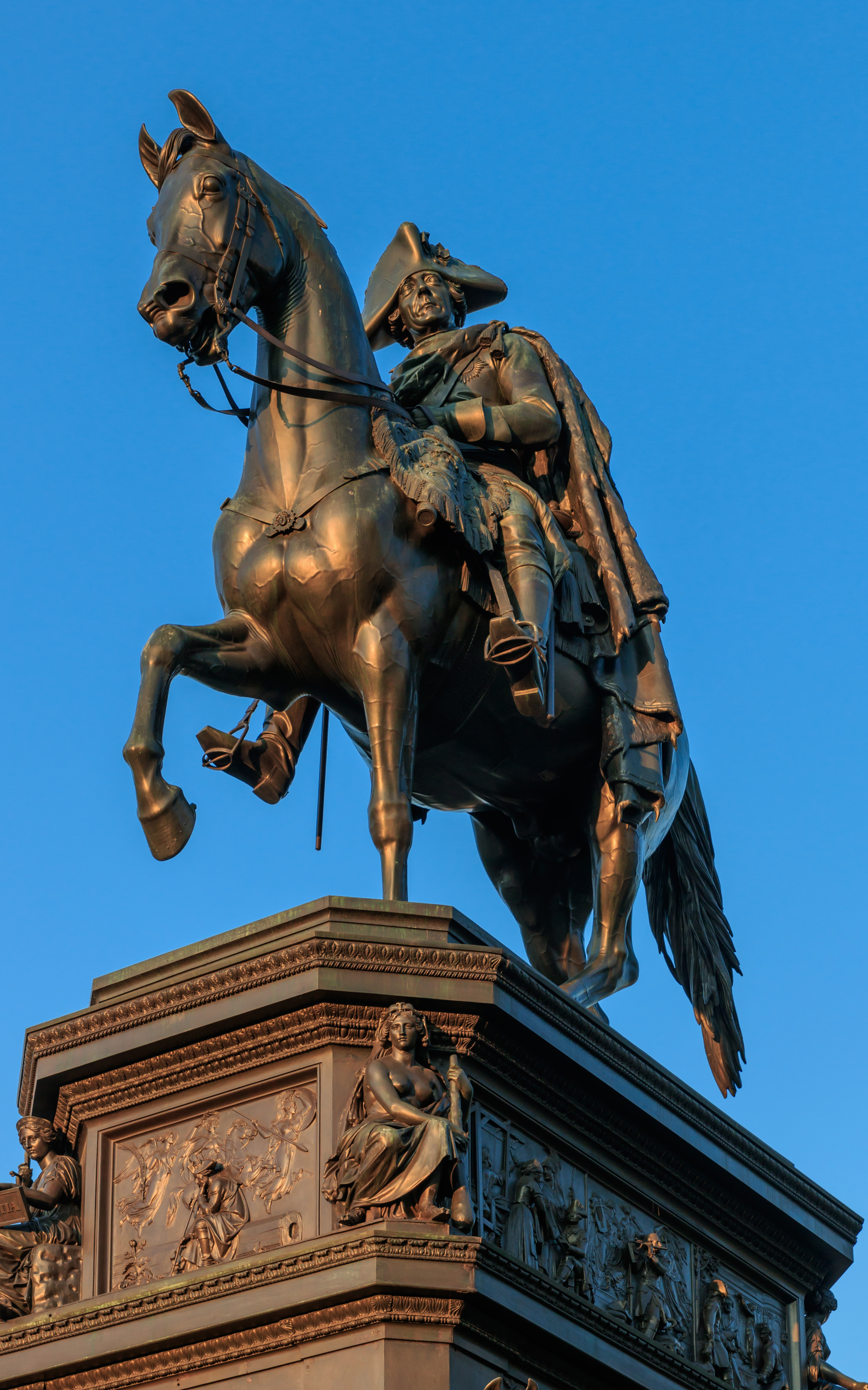 Equestrian statue of Frederick II in Berlin (Germany)